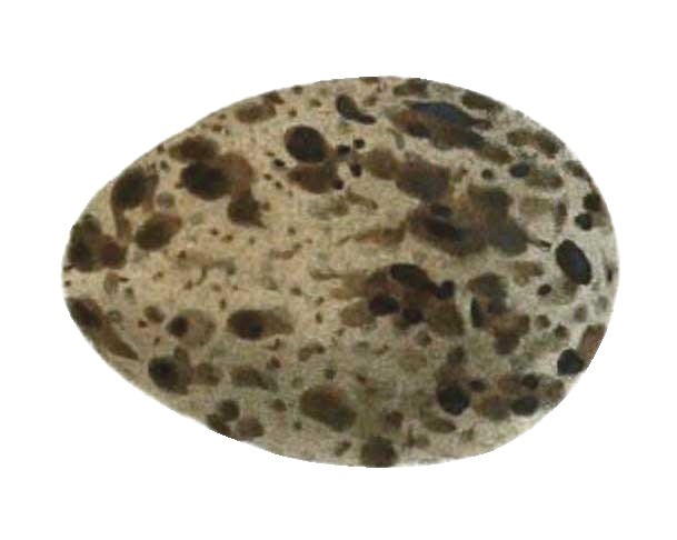 « Oedicnemus senegalensis » = Burhinus senegalensis (Senegal thick-knee) - egg